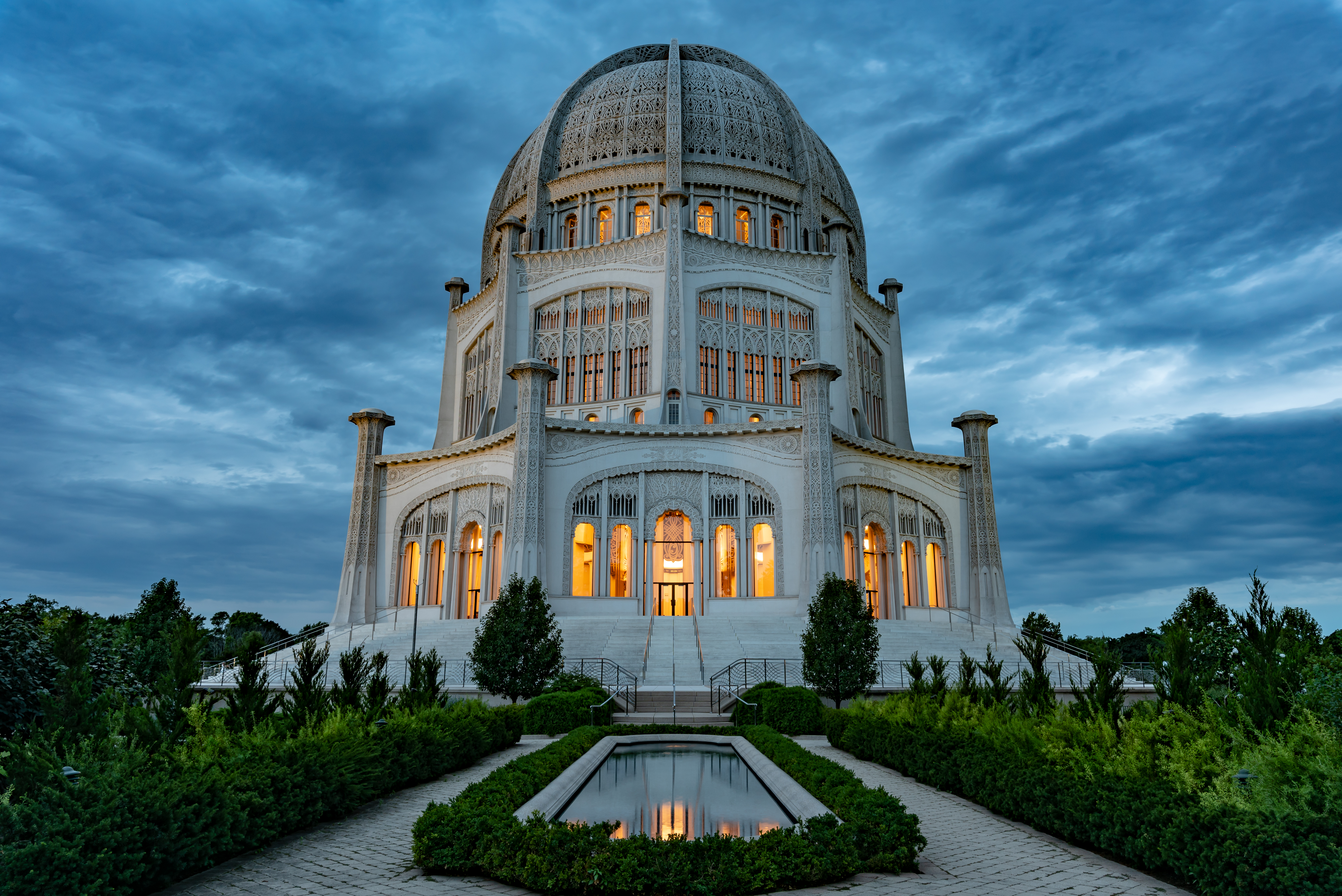 The Baha'i Temple (Wilmette, IL) seen at dusk on August 28th 2018